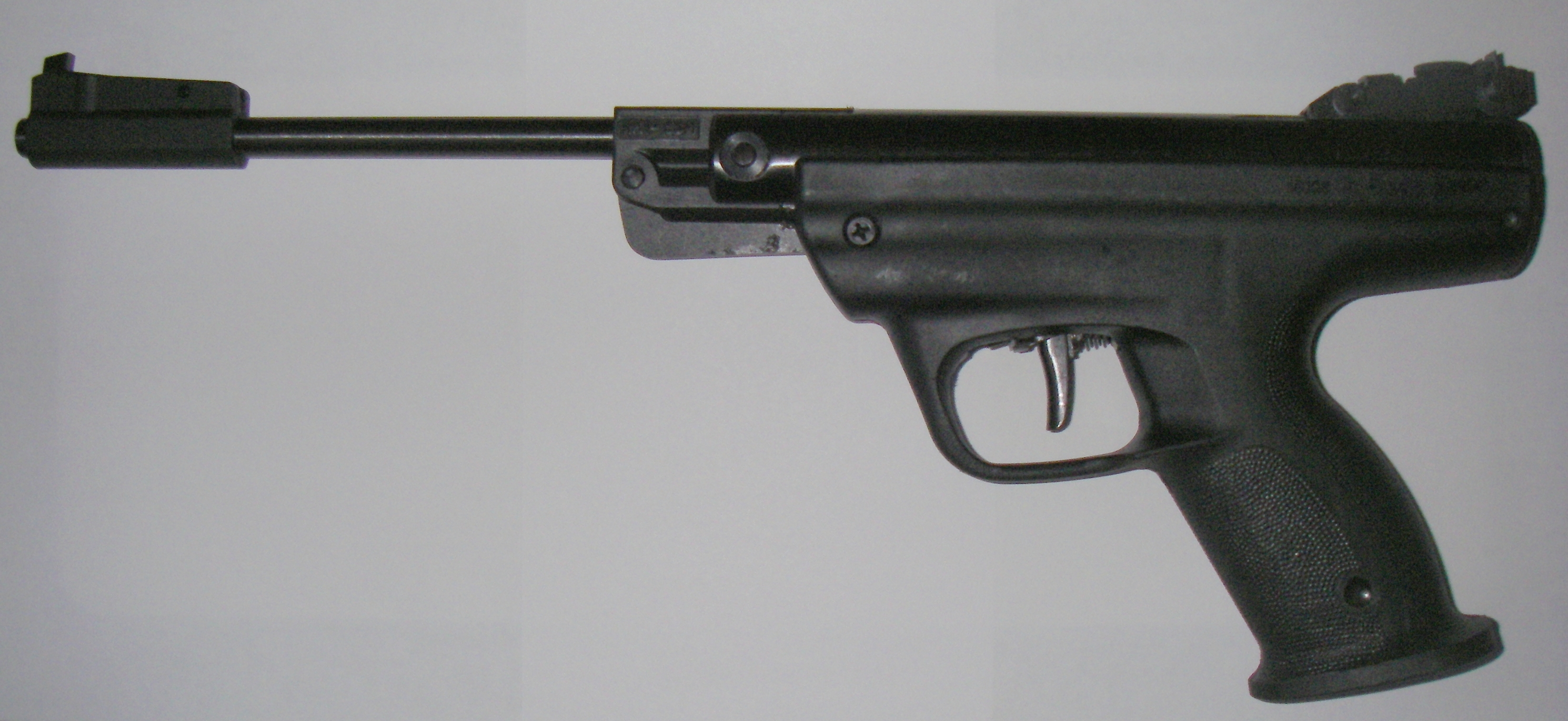 IZh-53(MP-53) air pistol